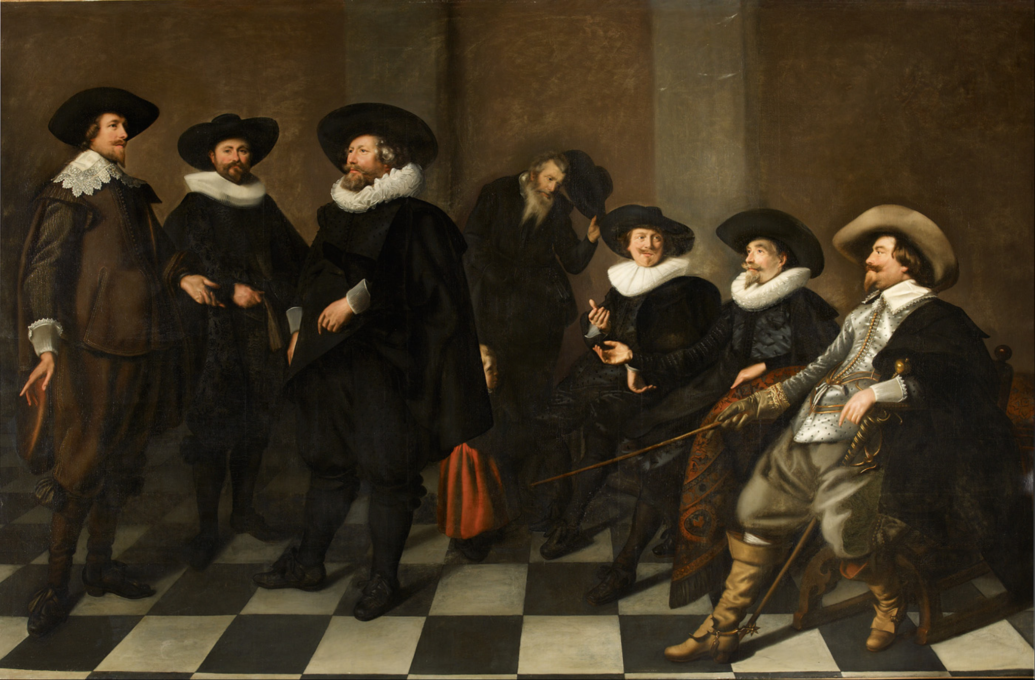 In the background, the "binnenvader" is leading a young girl to meet the regents. She is clothed in the characteristic orphan dress. From left to right, the regents are: Gerrit Pietersz. Schaep, Gerbrand Claesz. Pancras, Nicolaes van Campen, Frans de Neve, Cornelis Jacobsz. Wayer, Nicolaes Hasselaer